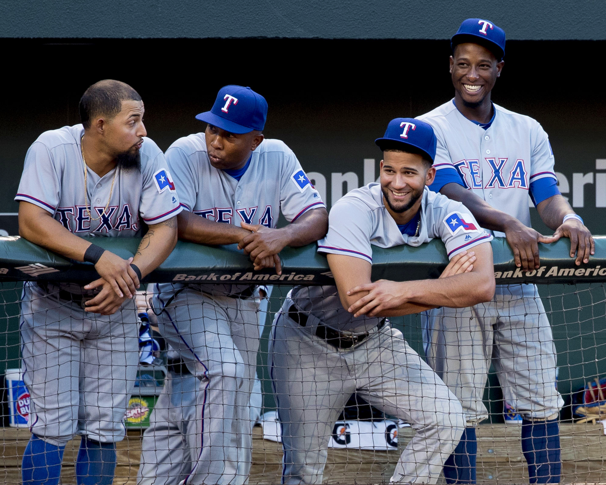 (From left to right) Rougned Odor, Tony Beasley, Nomar Mazara and Jurickson Profar